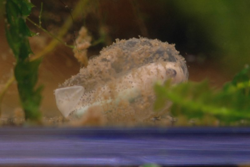 14-day-old Neurergus kaiseri egg. Picture taken in captivity, in France.